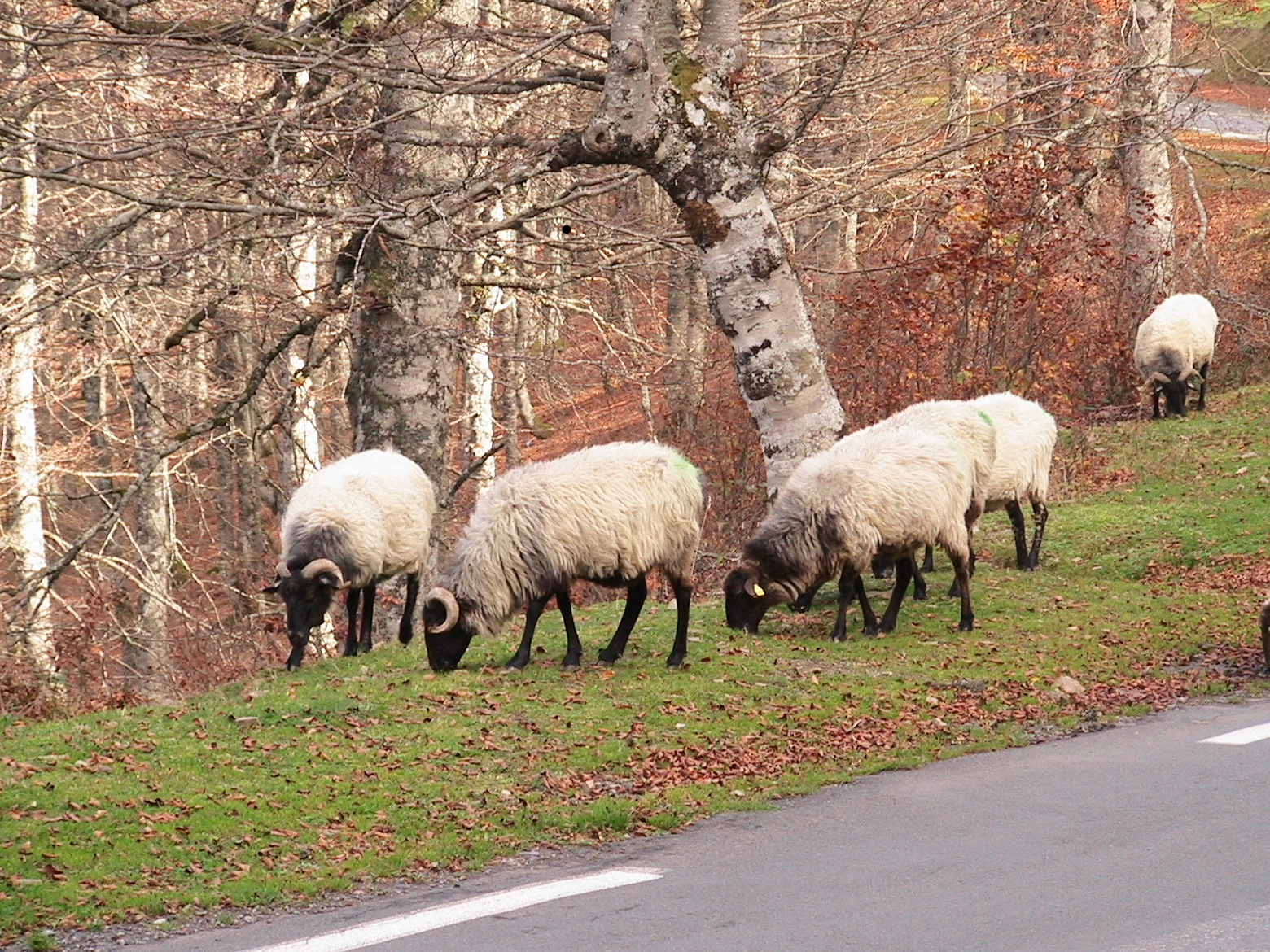 Manesh sheeps in Iraty.